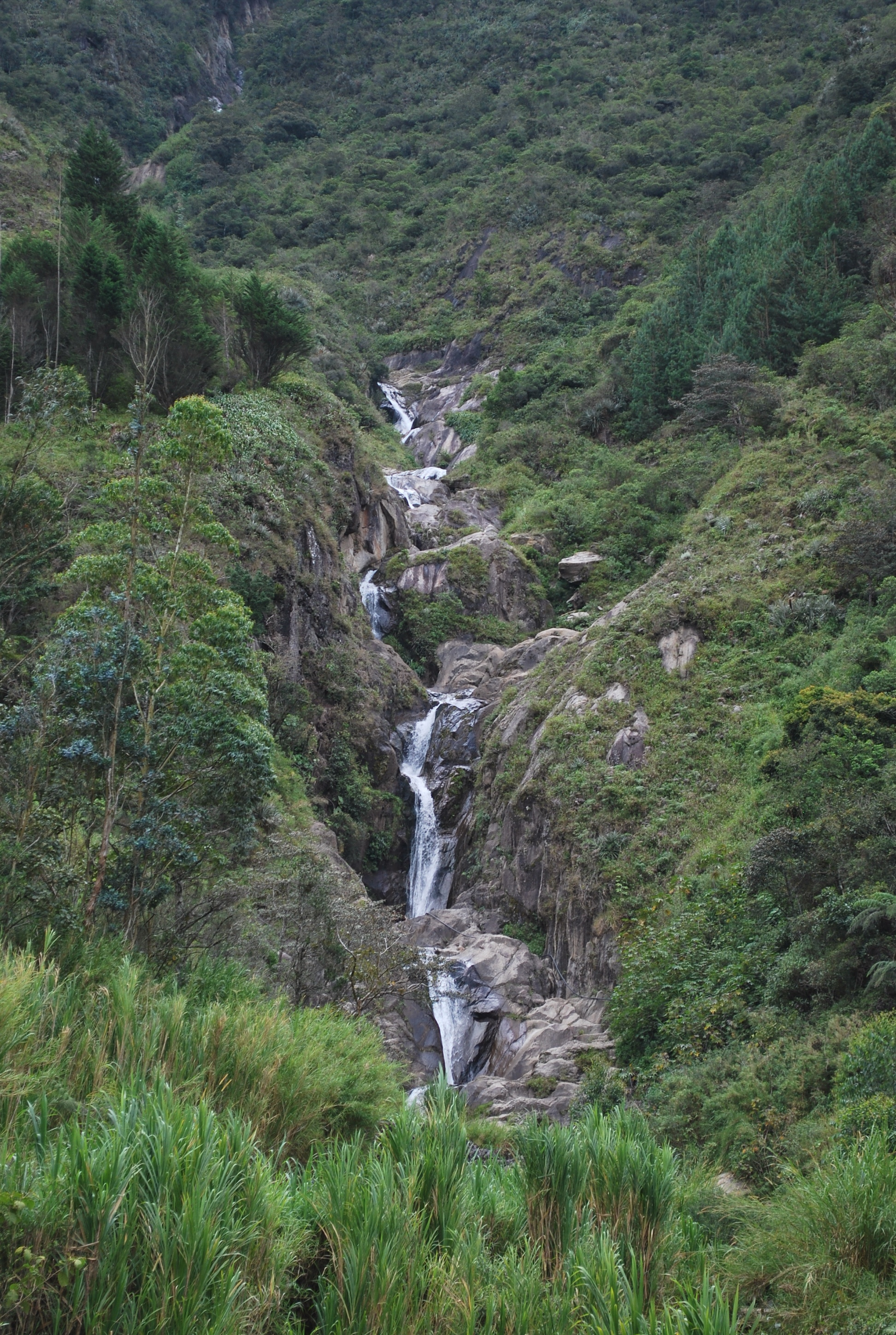 Waterfall in Baños de Agua Santa, Ecuador